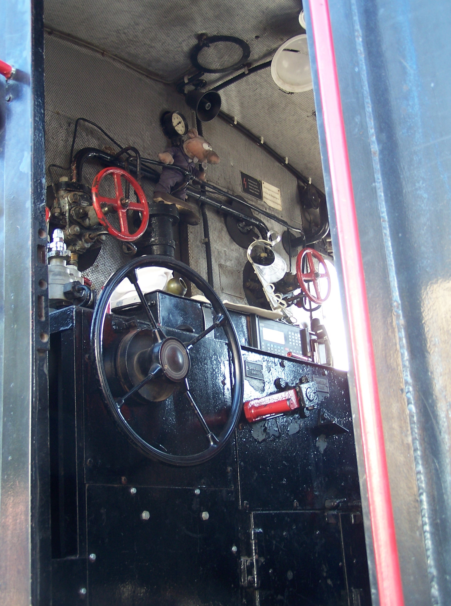 driver's cab of V36 406 owned by the Historical Railway Frankfurt (HEF) in Frankfurt am Main